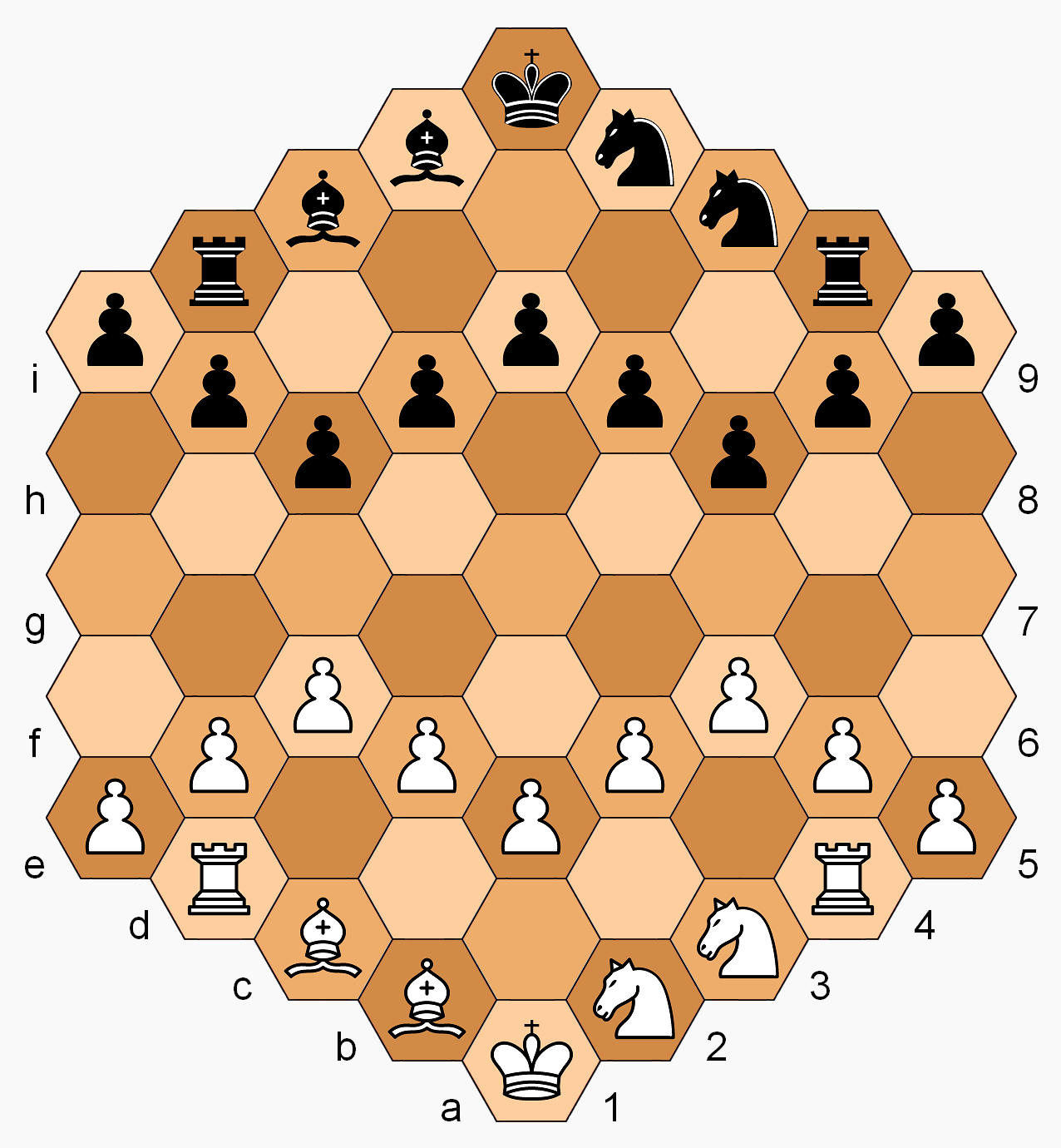 Dragonfly Hex (HexDragonfly) initial configuration graphic, using WP ProjectChess board colors (including exact mid-tone) and the wonderful free-use icons provided by User:Dbenbenn (David Benbennick); all done in MS PAINT